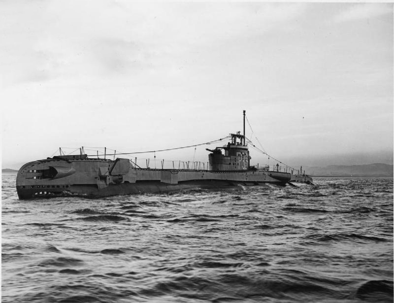 British T class submarine HMSM THOROUGH underway.